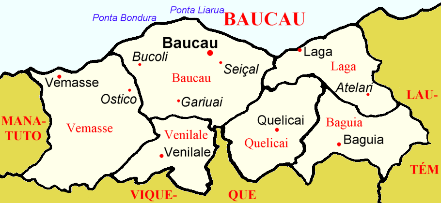 Subdistricts of District of Baucau/East Timor.